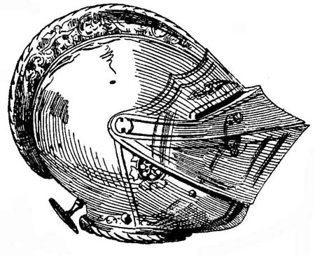 Close Helm (Burgundian) of Ferdinand I of Czechia & Hungary (1530)